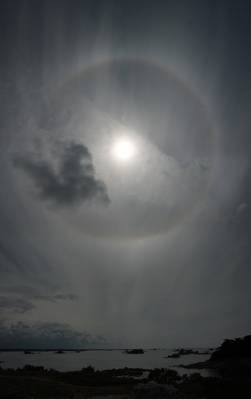 Solar halo picture taken in Roscoff, France.